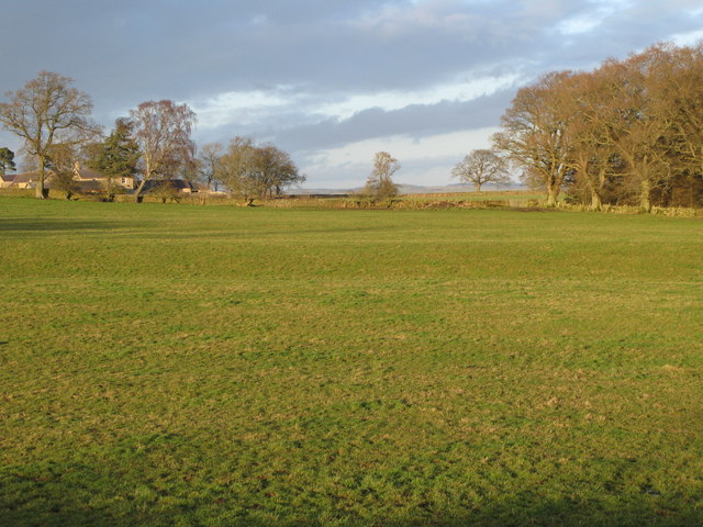 (The site of) Turret 28b (near Rye Hill). No visible trace, but 1250111 can be seen running left to right about half way up the image; 1129343 is at the upper left.